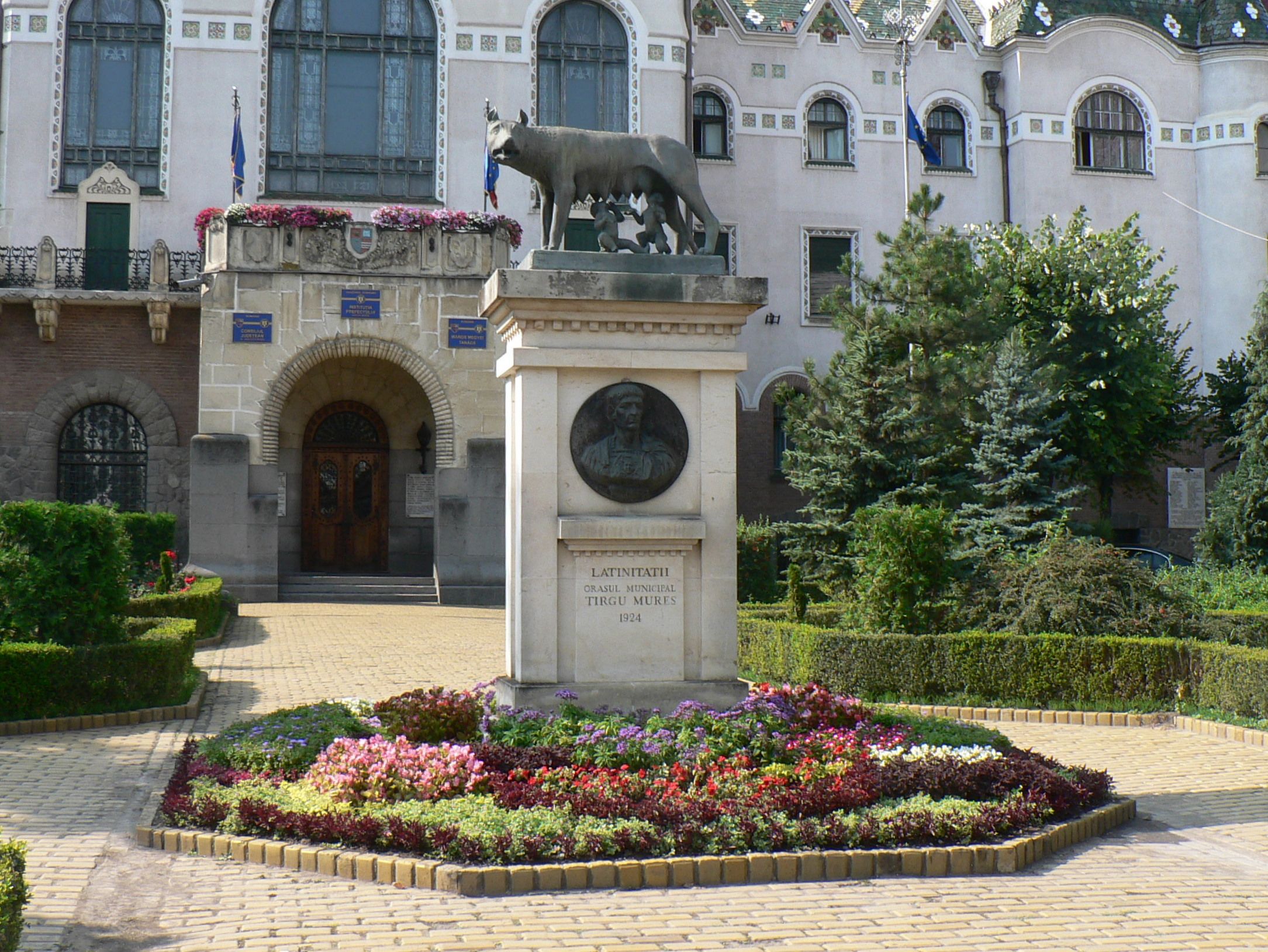 Targu Mureş, sculpture of Roman shewolf